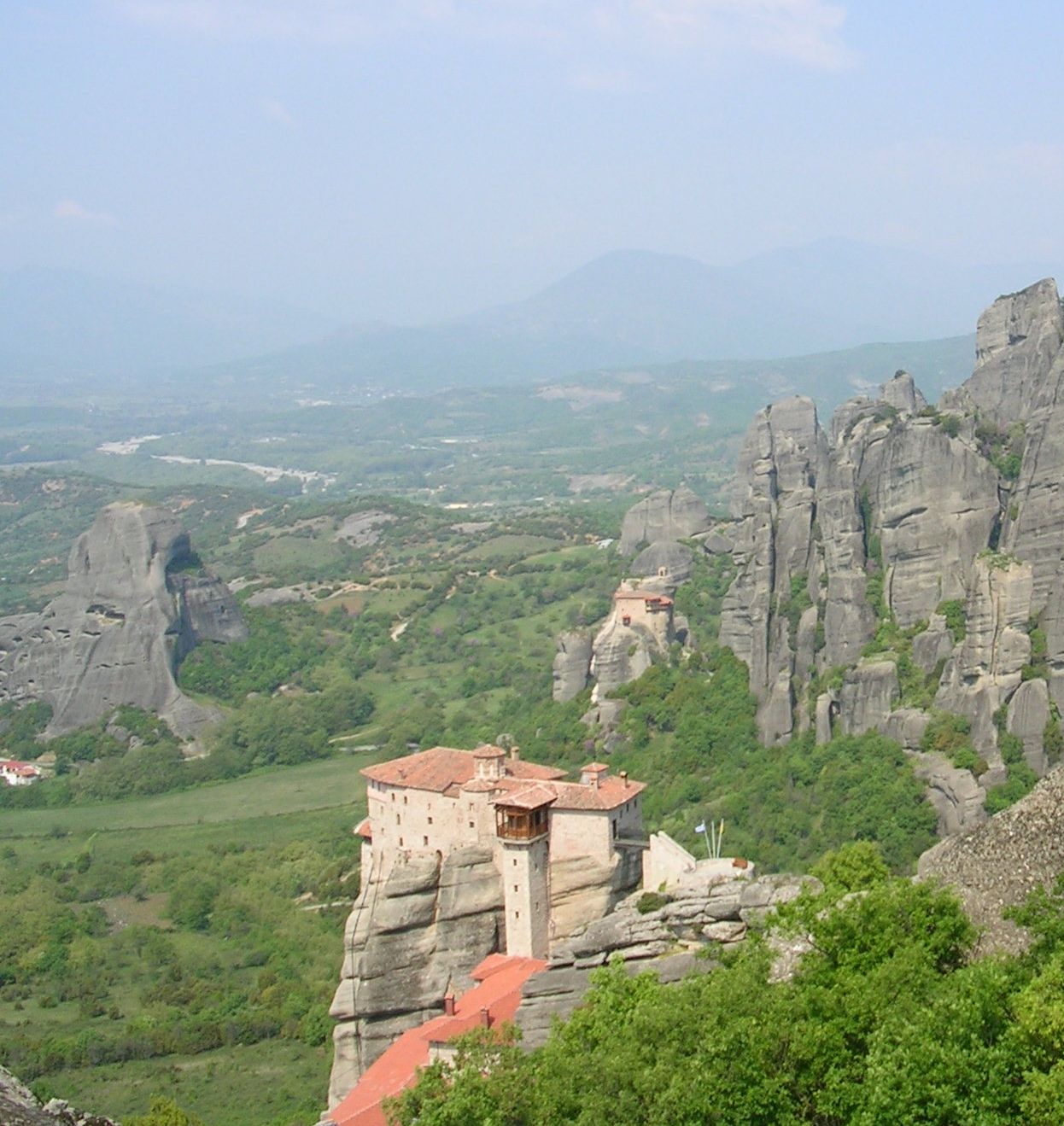 Moni Rousanou (Meteora)